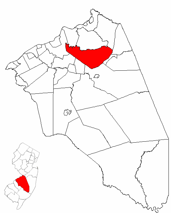 Map of Burlington County highlighting Springfield Township